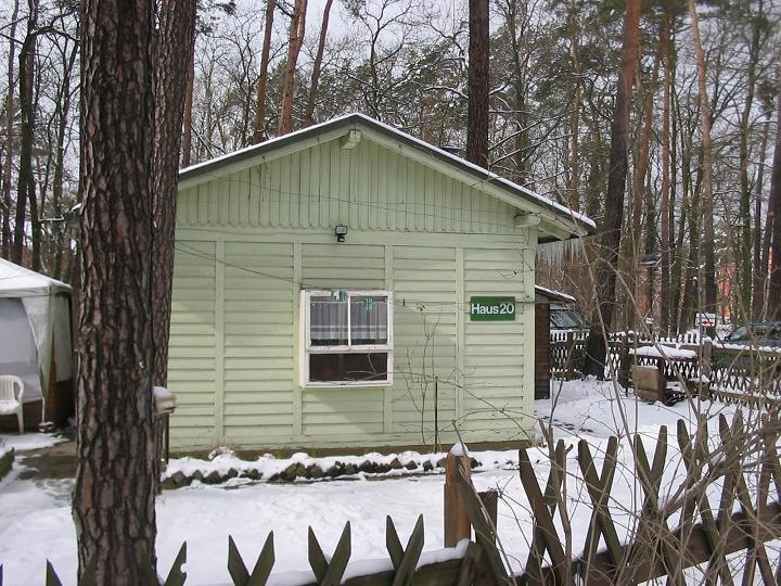 Oskar-Helene-Heim, Berlin-Zehlendorf. Outbuilding No. 20.